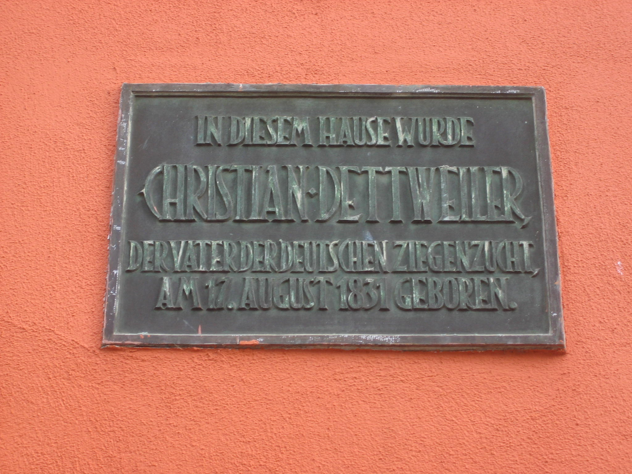 Memorial for Christian Dettweiler (1765-1838), a successful farmer and agricultural pioneer in goat husbandry.